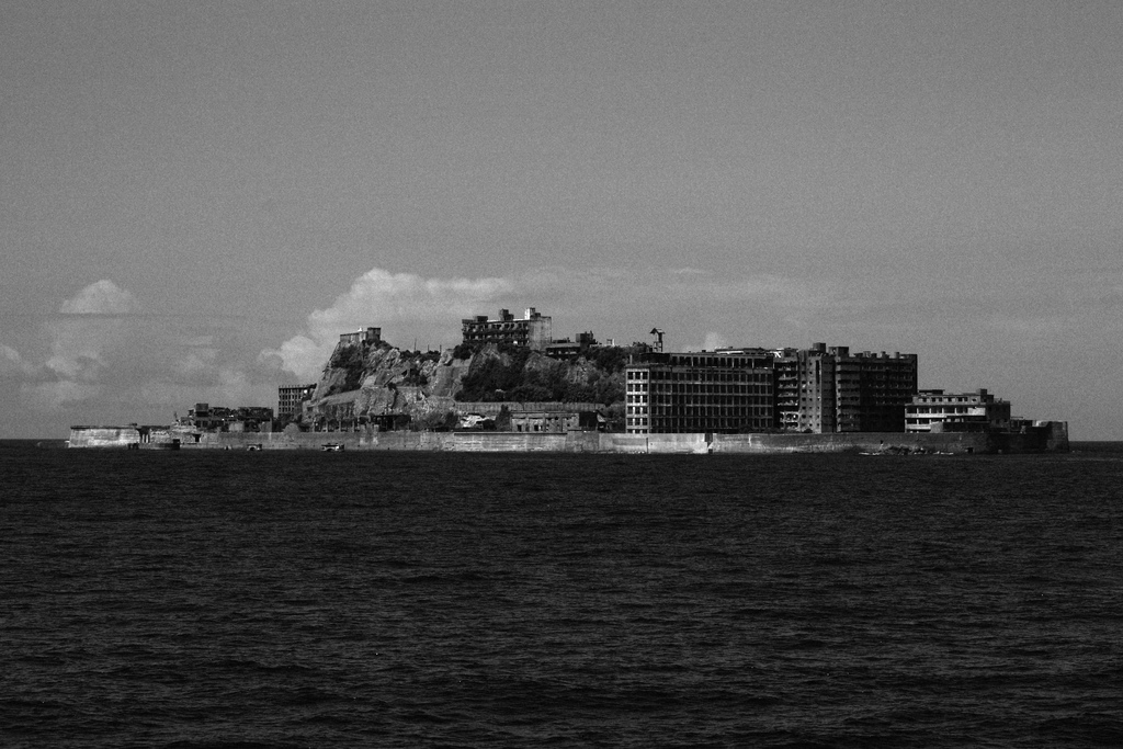 Gunkanjima